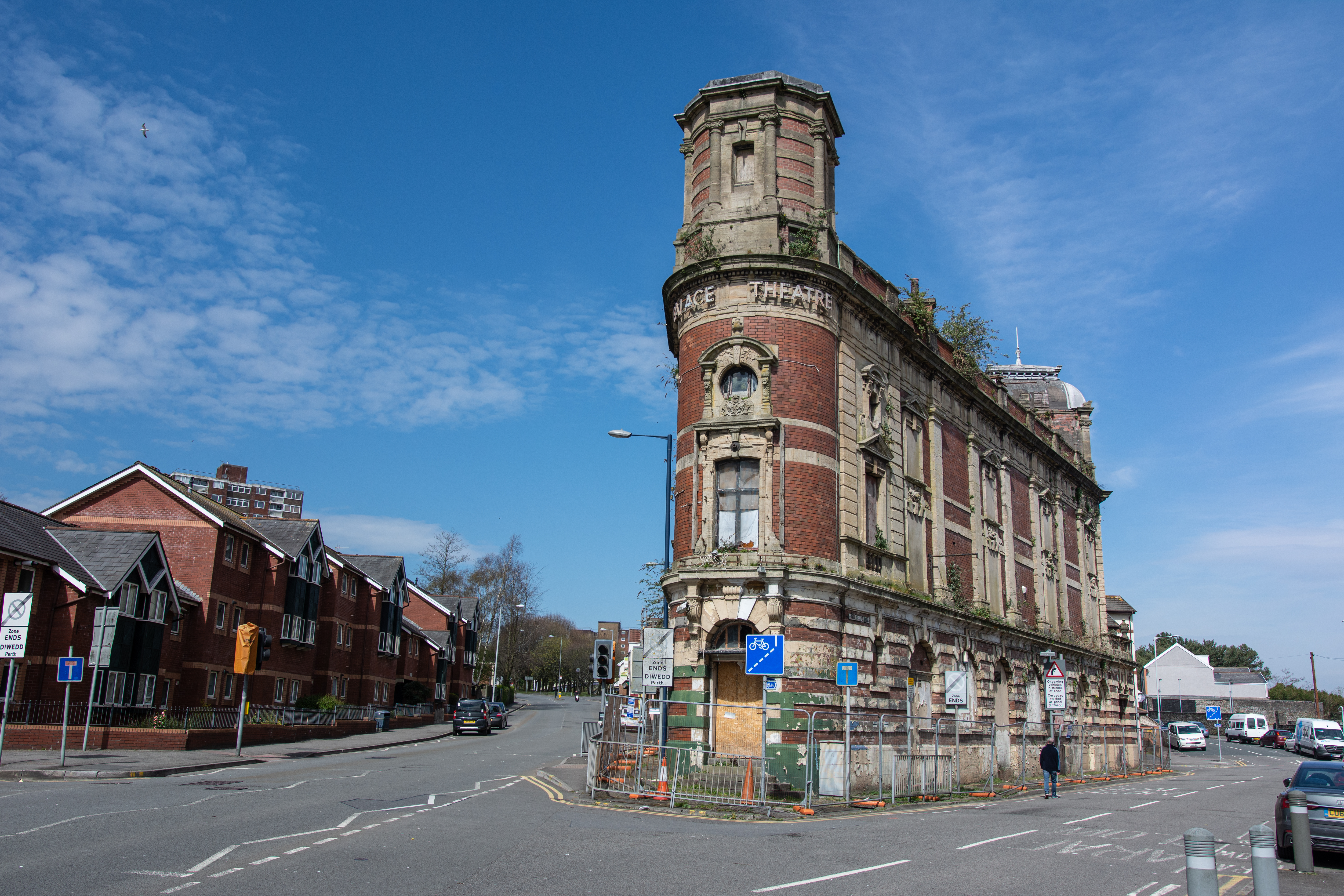 Palace Theatre Wind Street